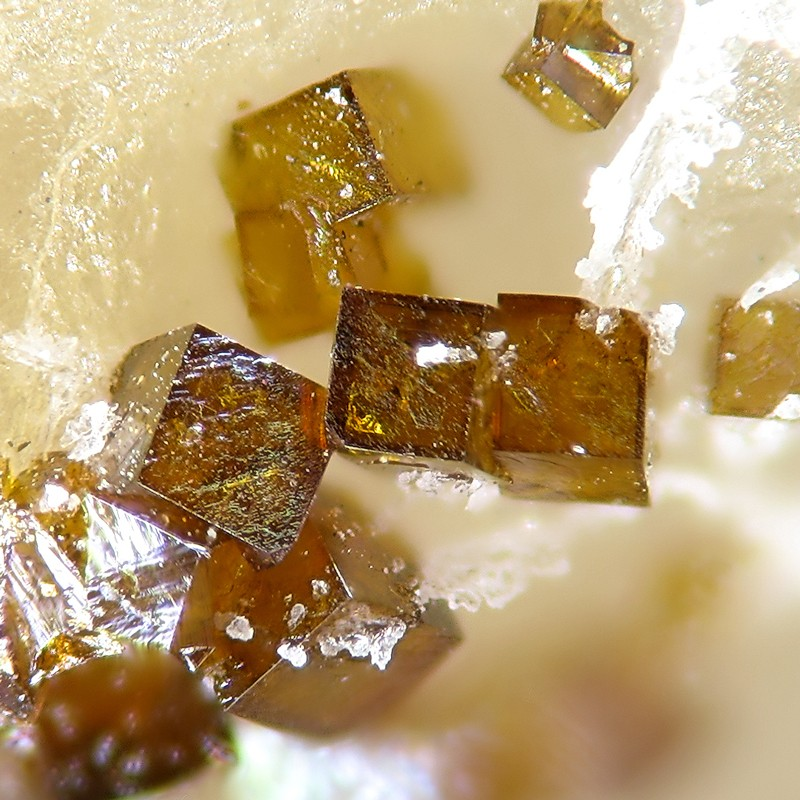 Pharmacosiderite Locality: Alto das Quelhas do Gestoso Mines, Gestoso, Manhouce, São Pedro do Sul, Viseu District, Portugal Picture width 2 mm. Collection and photograph Christian Rewitzer